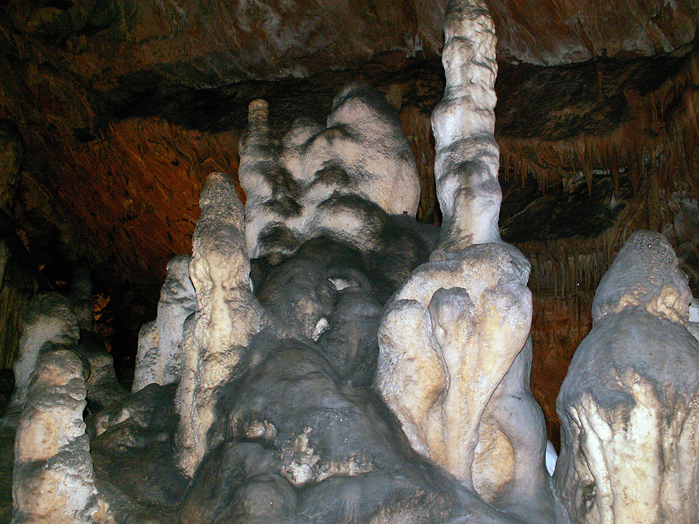 'White Castle' stalagmite formation from Saeva Dupka cave, Bulgaria